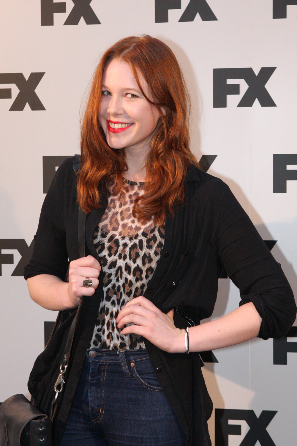 Anna MCgahan attending 'Call Me Fitz' - FX Event At Swifts, Darling Point, Sydney with Jason Priestley